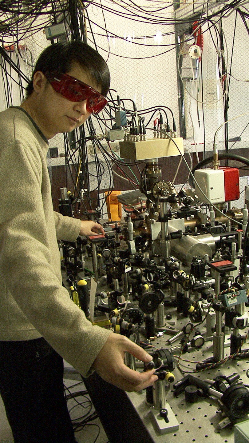 NIST postdoctoral researcher James Chin-wen Chou with the worlds most precise clock, based on the vibrations of a single aluminum ion (electrically charged atom). The ion is trapped inside the metal cylinder (center right). Credit: J. Burrus/NIST Disclaimer: Any mention of commercial products within NIST web pages is for information only; it does not imply recommendation or endorsement by NIST. Use of NIST Information: These World Wide Web pages are provided as a public service by the National Institute of Standards and Technology (NIST). With the exception of material marked as copyrighted, information presented on these pages is considered public information and may be distributed or copied. Use of appropriate byline/photo/image credits is requested.